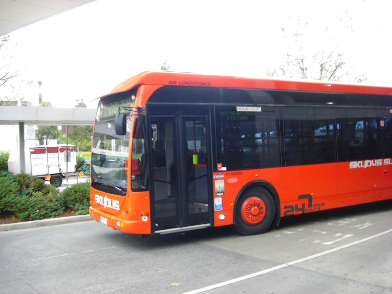 A Skybus Super Shuttle airport bus, leaving Melbourne Airport (Australia) bound for Southern Cross Station.